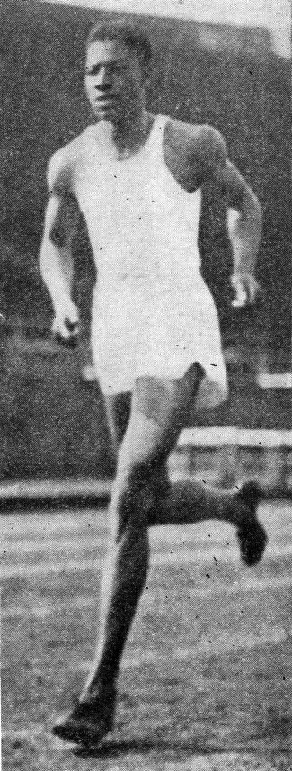 John Woodruff,was an American track star and winner of the 800 metres at the 1936 Summer Olympics. He competed in track in college at the University of Pittsburgh.